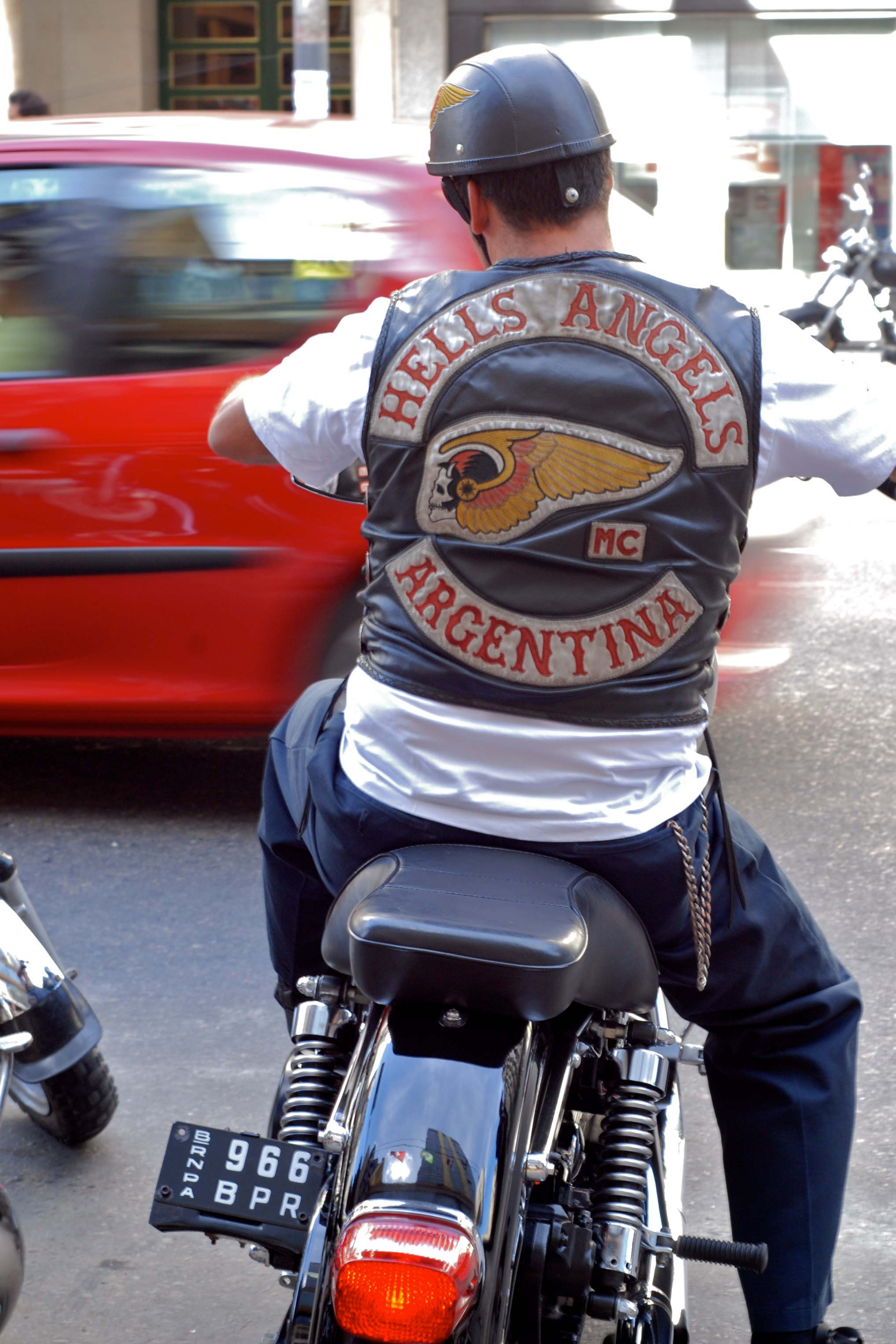 Member of the Hells Angels Motorcycle Club, Argentina chapter